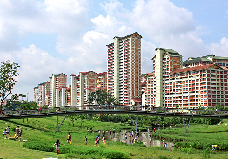 A view of a pedestrian bridge in Bishan-Ang Mo Kio Park, Singapore.